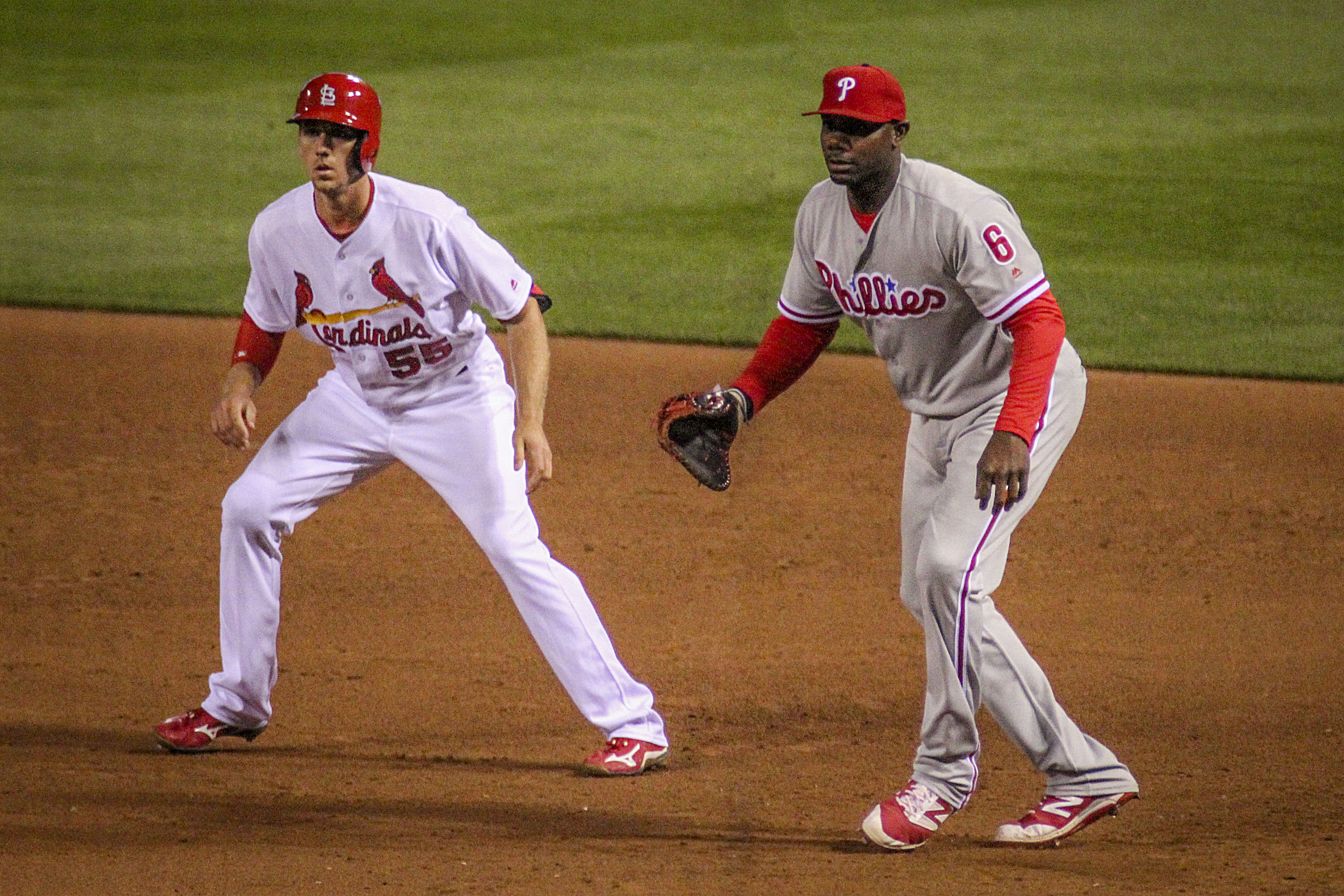 Cardinals Stephen Piscotty (left) leads off first. Phillies Ryan Howard hold him.